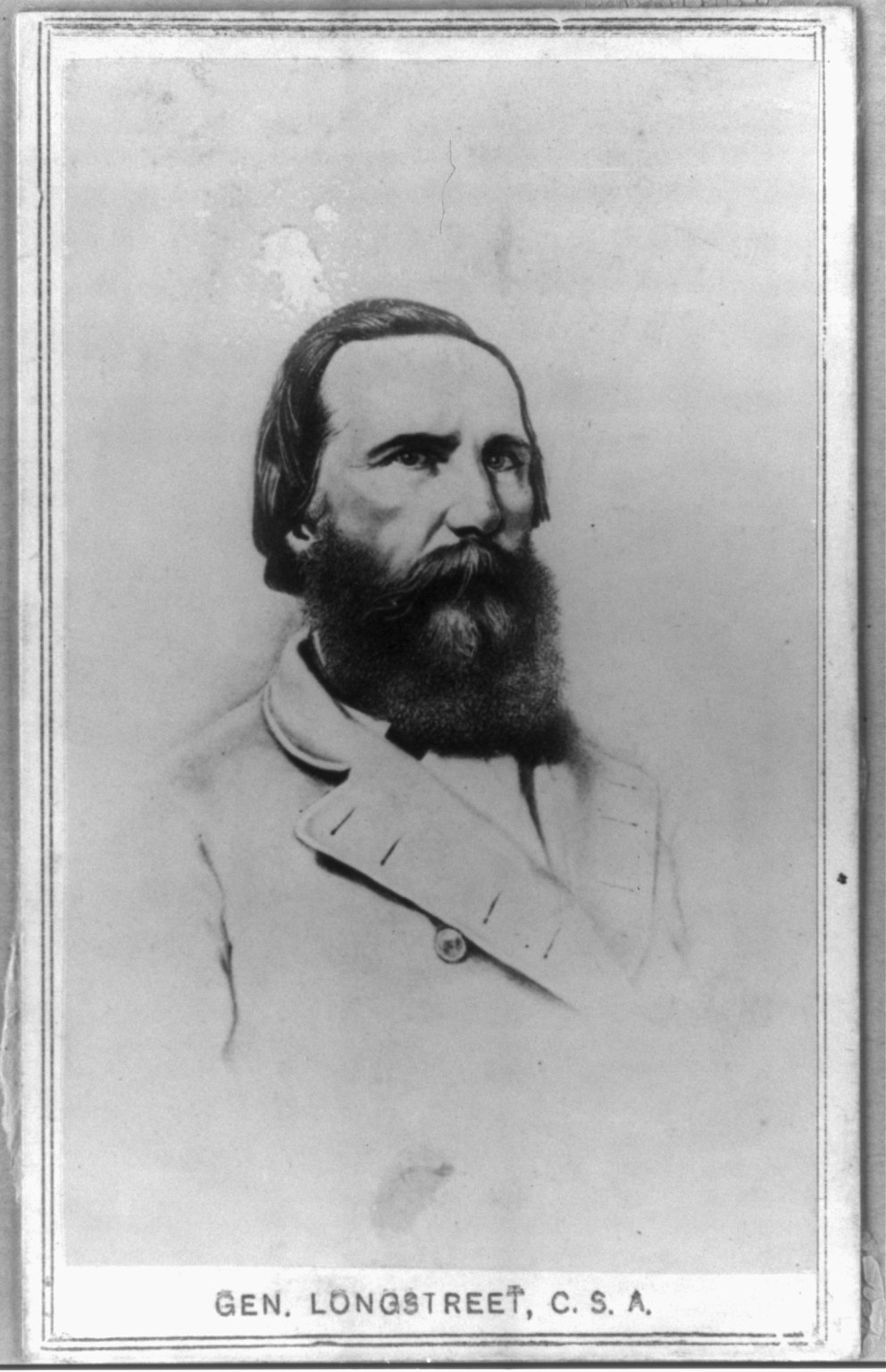 Title: Gen. Longstreet, C.S.A. Abstract/medium: 1 photographic print on carte de visite mount.